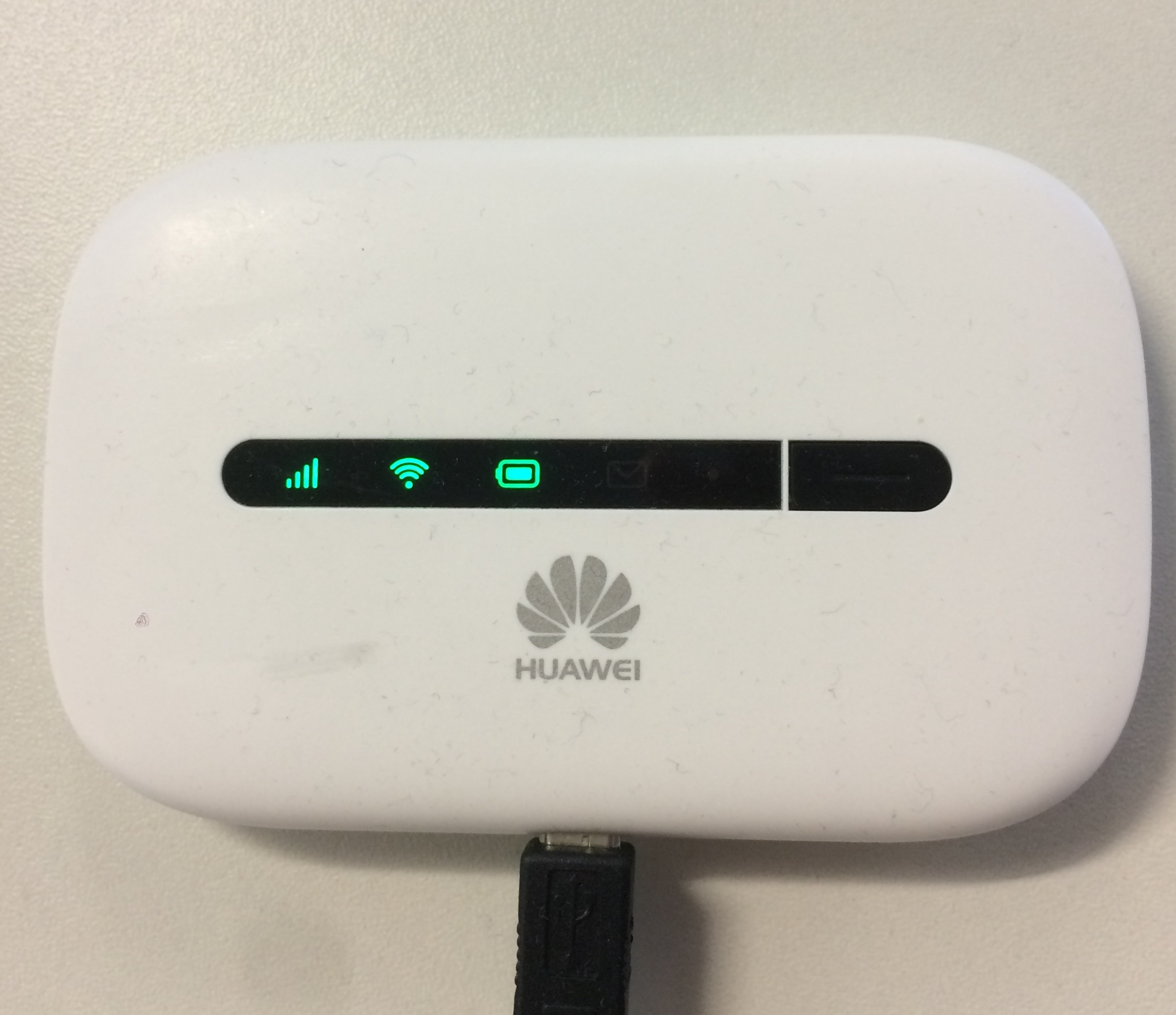 Mifi WLAN Hotspot